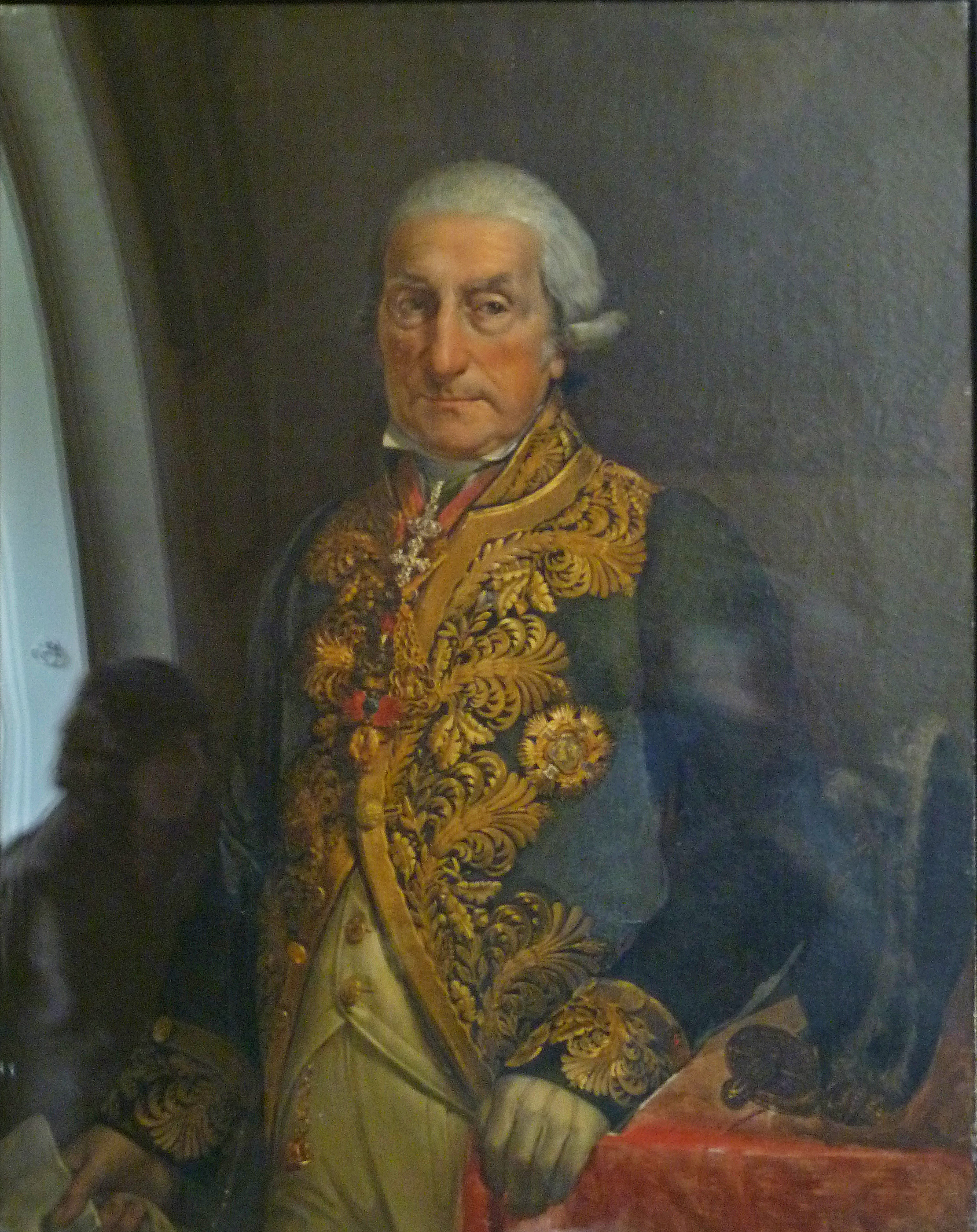 "Portrait of Giberto V Borromeo Arese" attributed to Giuseppe Molteni (1800-1887); the Small Study, Borromeo Palace, Isola Bella, Lago Maggiore, Italy